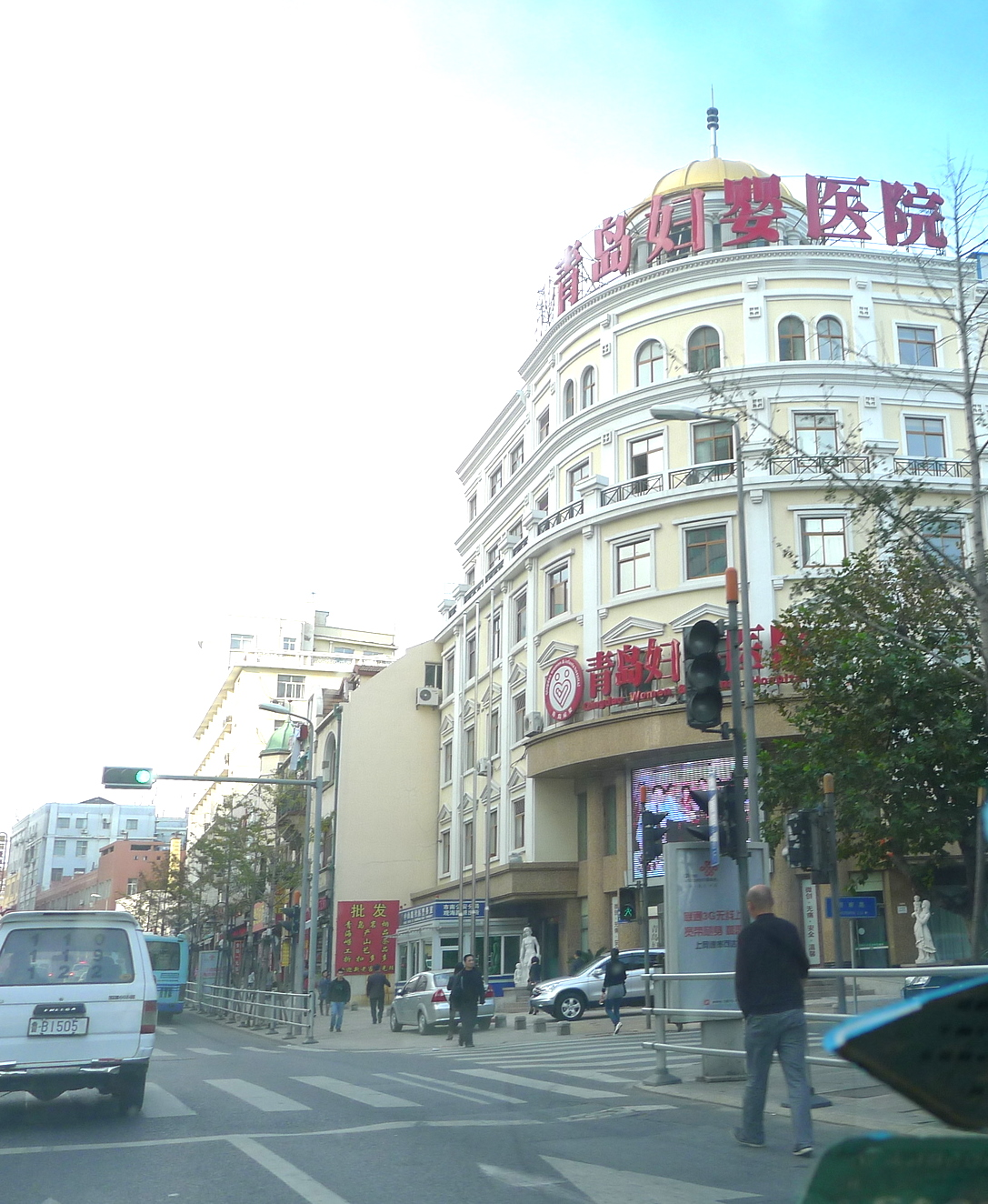 Qingdao Women and Children Hospital